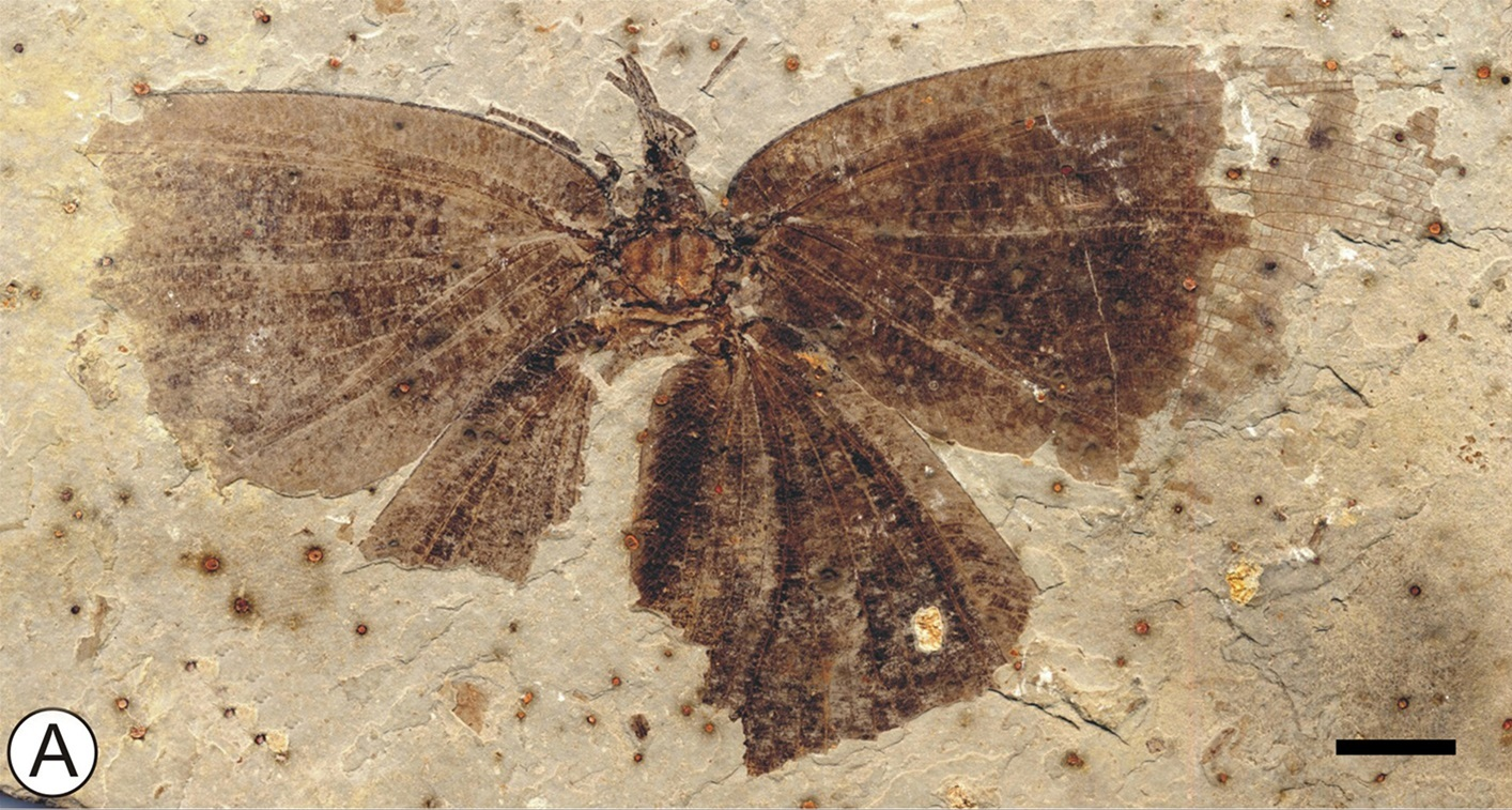 Image of Abrigramma calophleba CNU-NEU- HP2009-001P, Holotype. Scale bar, 10 mm